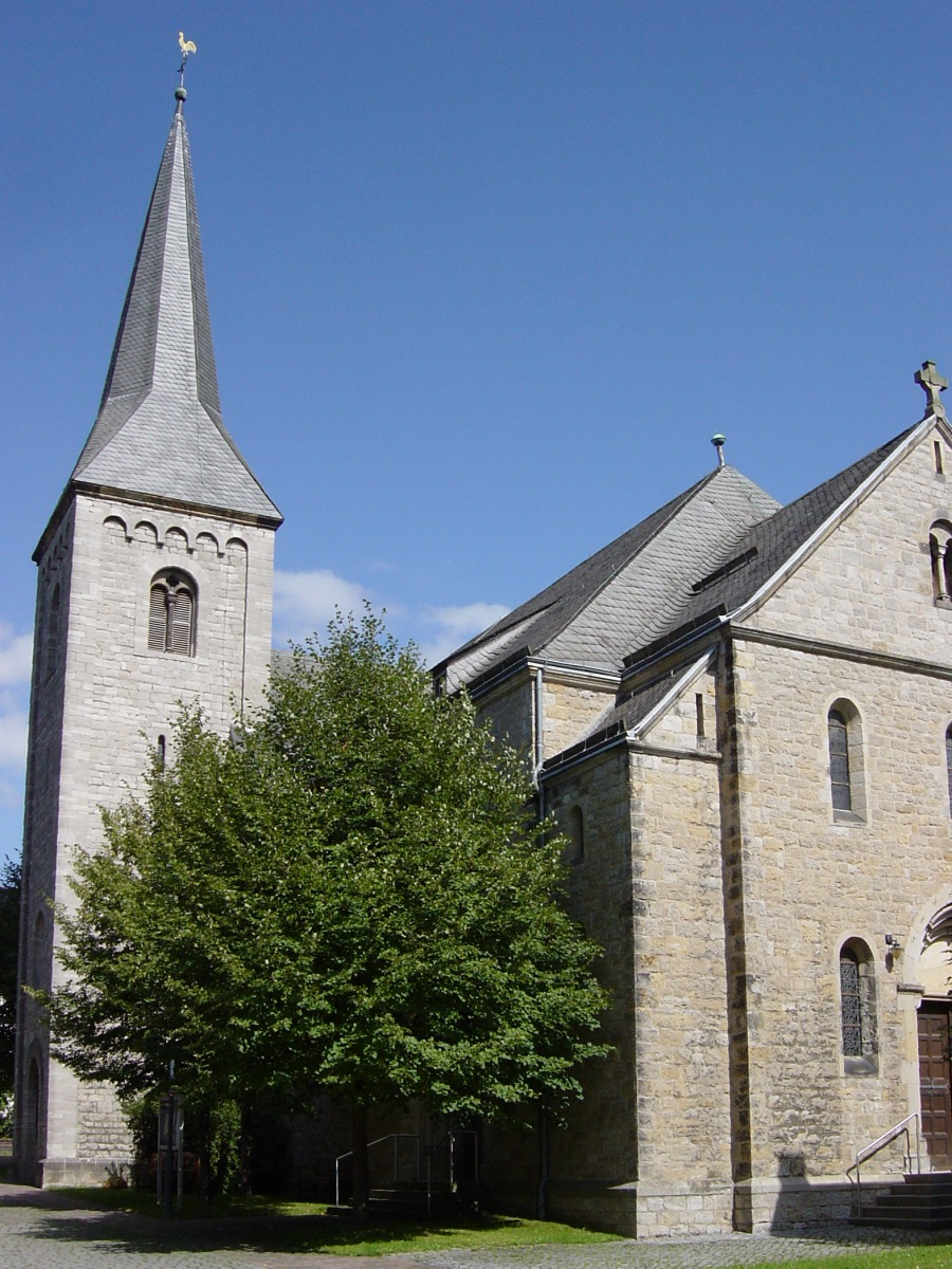 Catholic church Heilig Kreuz Ottbergen, Höxter (Germany) This is a photograph of an architectural monument.